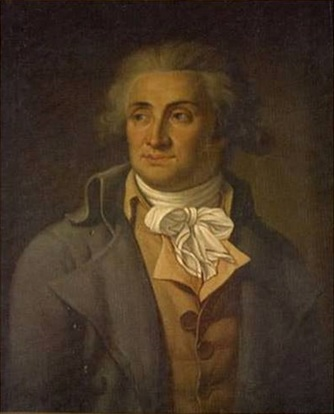 Portrait of Jean-Antoine-Nicolas de Caritat de Condorcet (1743-1794)